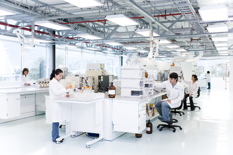 Laboratorios de Investigación del Centro de Biotecnología-FEMSA